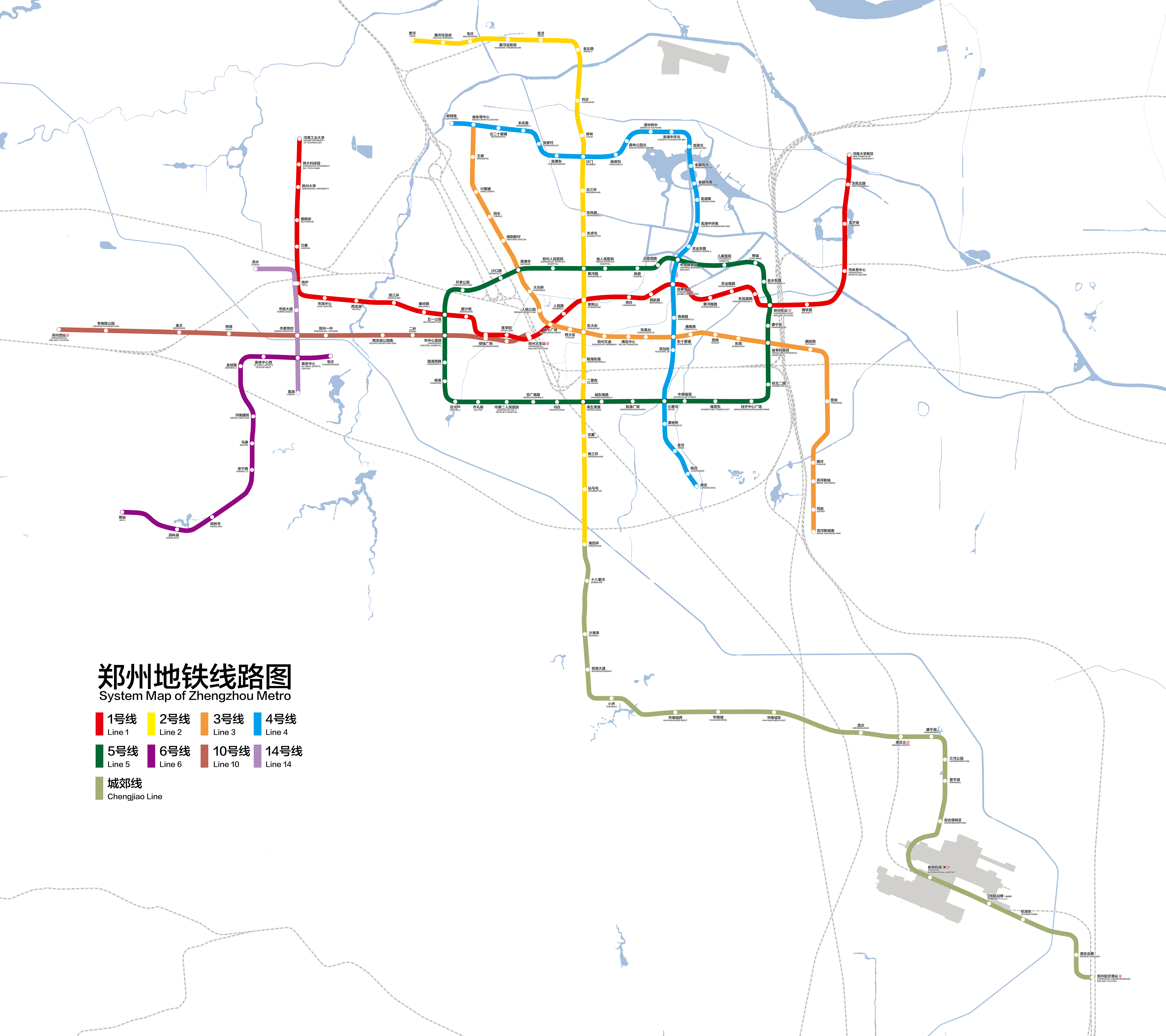 System Map of Zhengzhou Metro (with realistic scale)